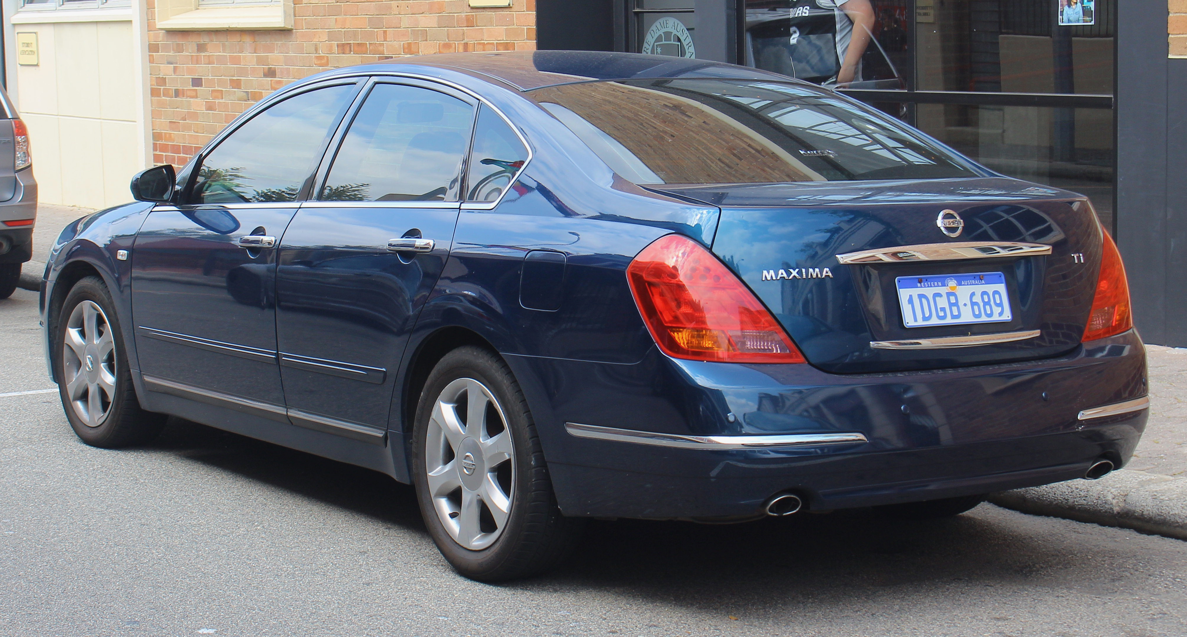 2007-2009 Nissan Maxima (J31 MY06) Ti sedan. Photographed in Fremantle, Western Australia, Australia.